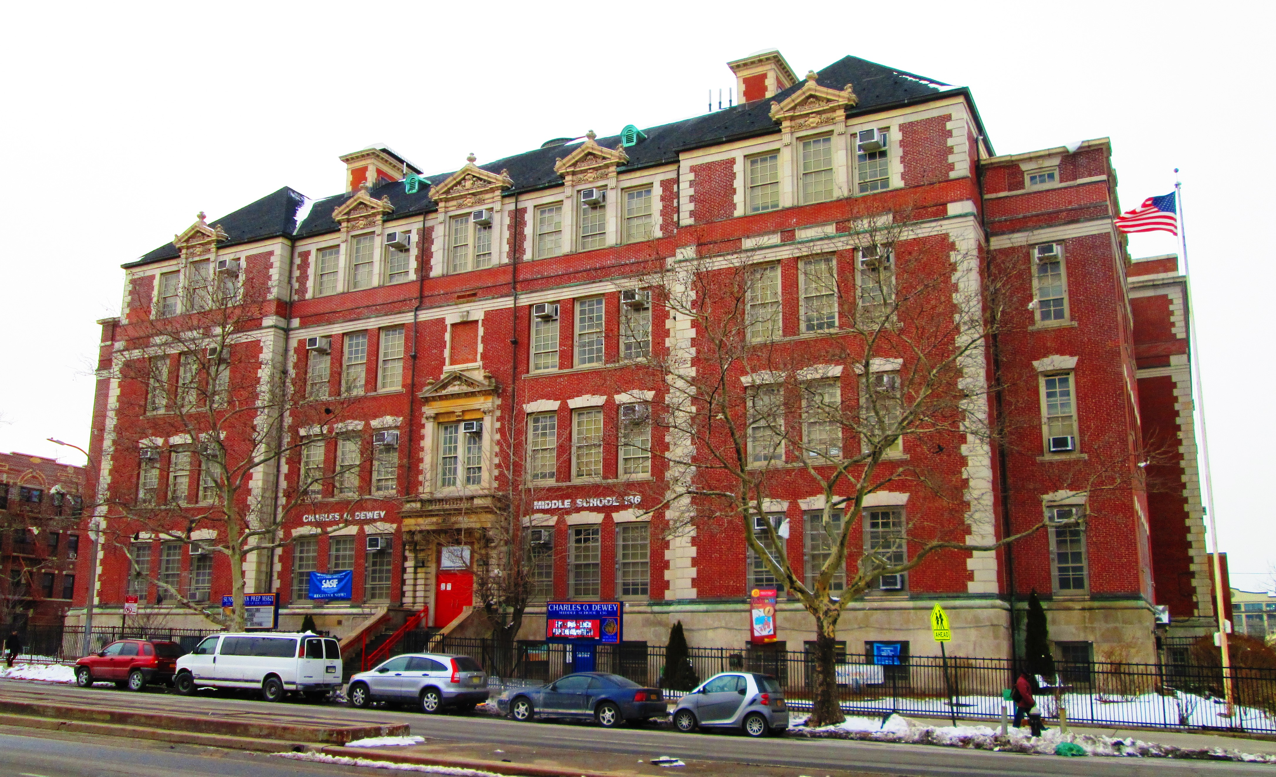 The school building at 4004 4th Avenue between 40th and 41st Streets in the Sunset Park neighborhood of Brooklyn, New York City is shared by two middle schools, Charles O. Dewey MS136 and Sunset Park Prep MS821. The building was constructed in 1920. (Sources: [1] and NYC GIS map